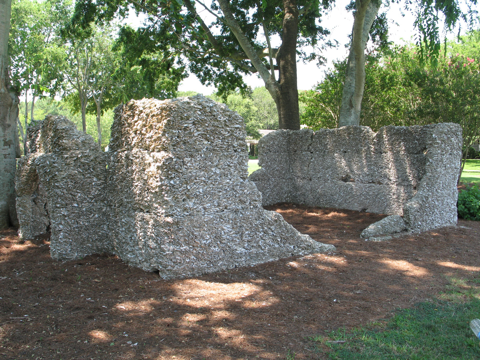 A structure constructed of shells and lime. Picture taken on Daufuskie Island